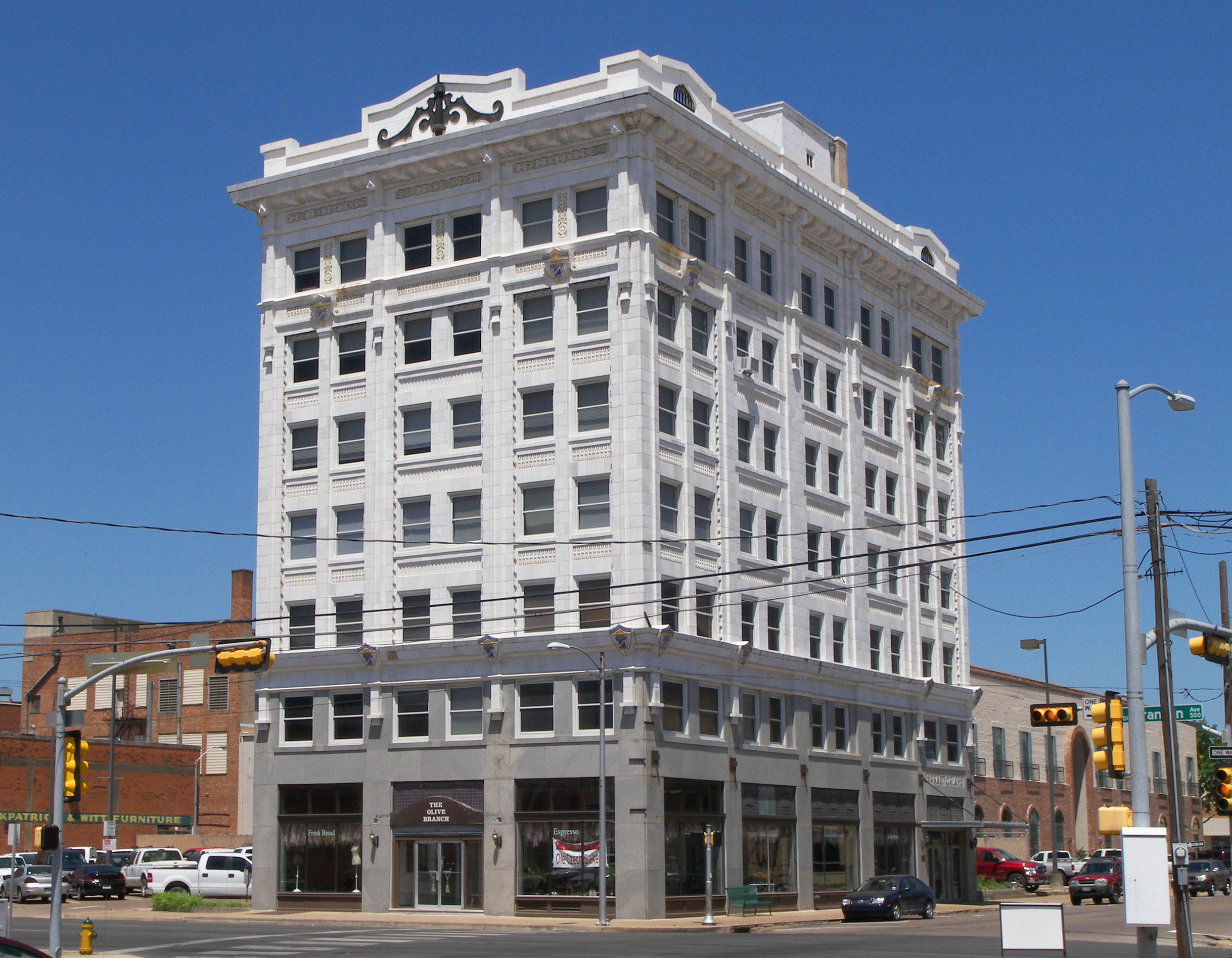 The Praetorian Building Waco, Texas, United States. C.W Bulger and Son designed the building in the Chicago School style of architecture. Construction started in 1913 and completed in 1915. The building was listed on the National Register of Historic Places on July 26, 1984.